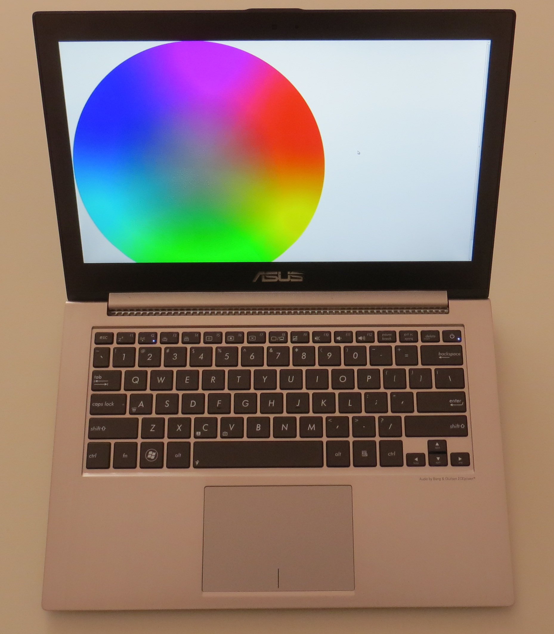 An Asus Zenbook UX31A, open with a colour wheel displayed. The image is in the public domain, original here.